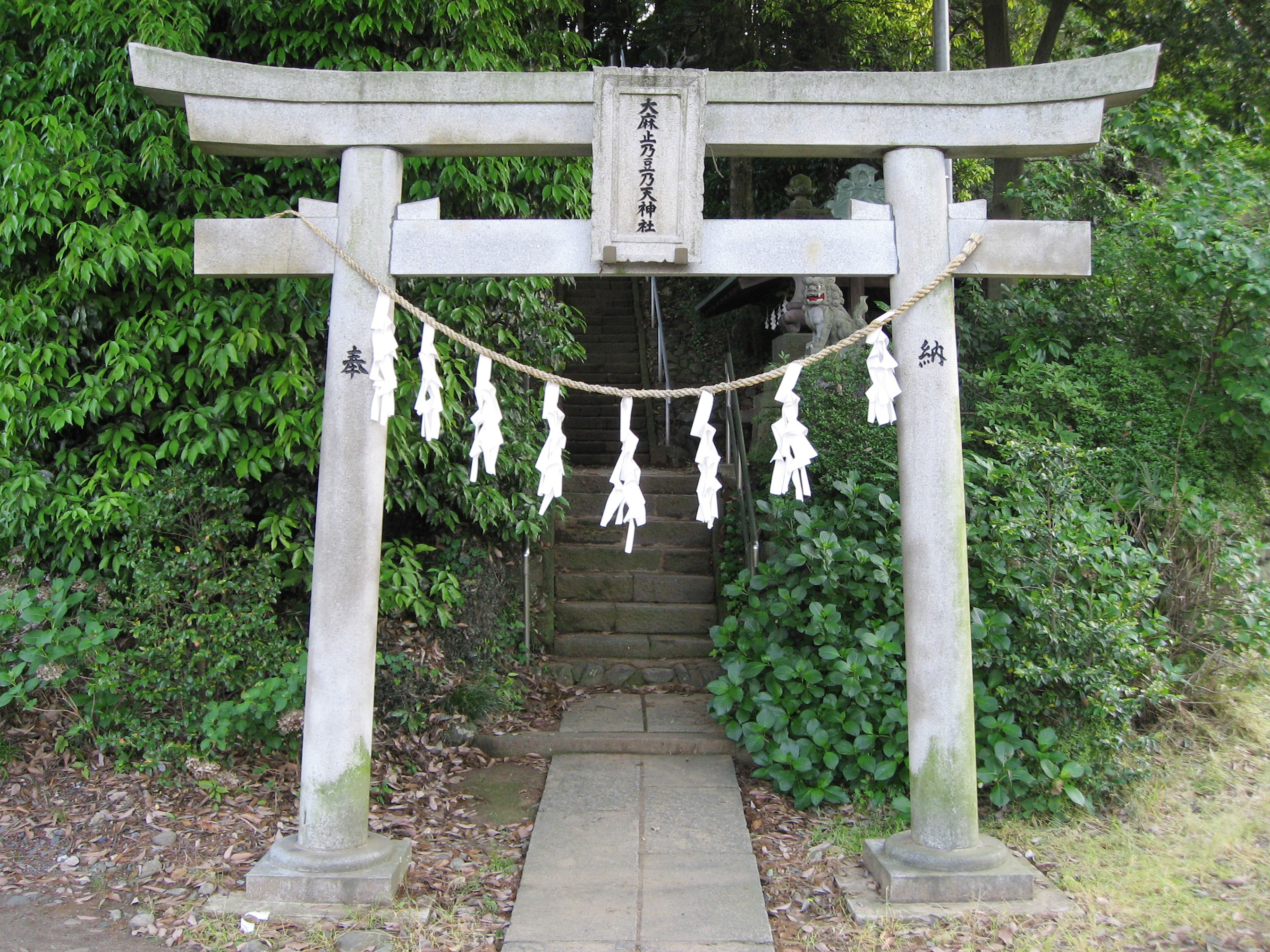 Torii of Oomatono Tsunoten Shinto Shrine in Inagi, Tokyo, Japan.